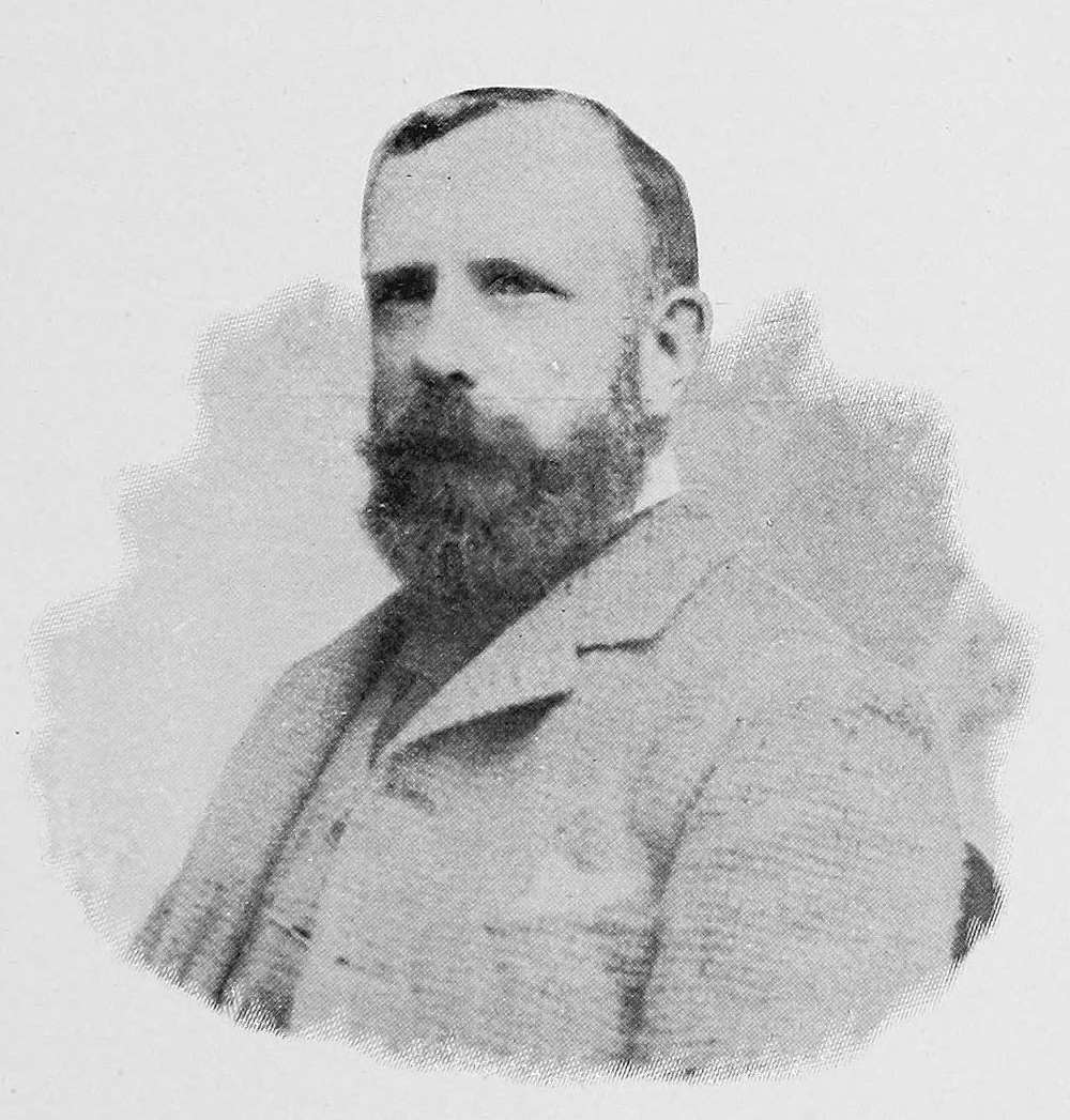 Frontispiece illustrating John Abercromby. John Abercromby, 5th Baron Abercromby